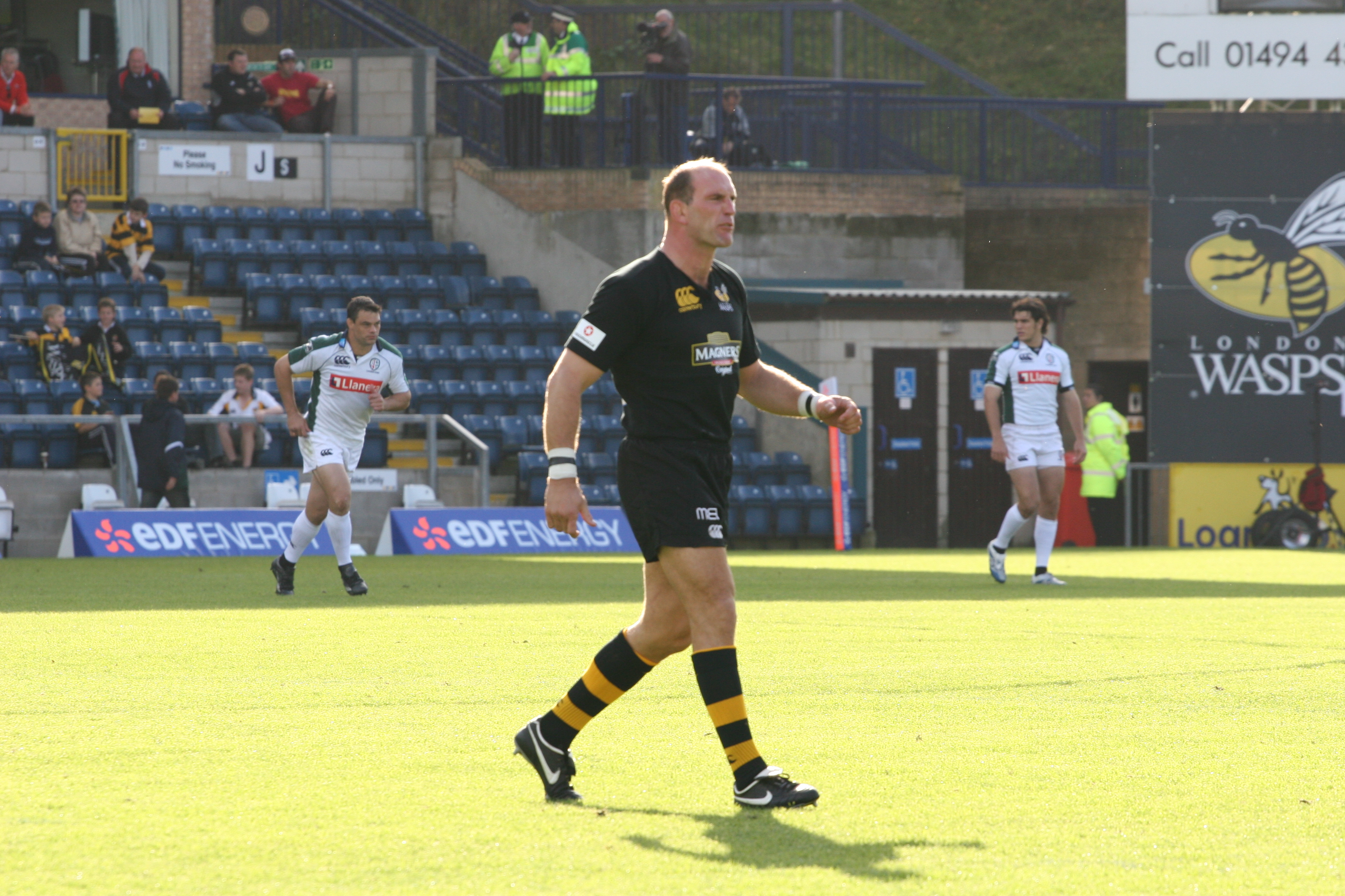 Lawrence Dallaglio, London Wasps Number 8